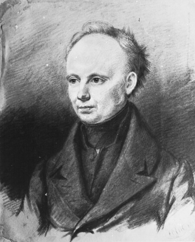 Christian Dietrich Grabbe (1801-1836), German playwright